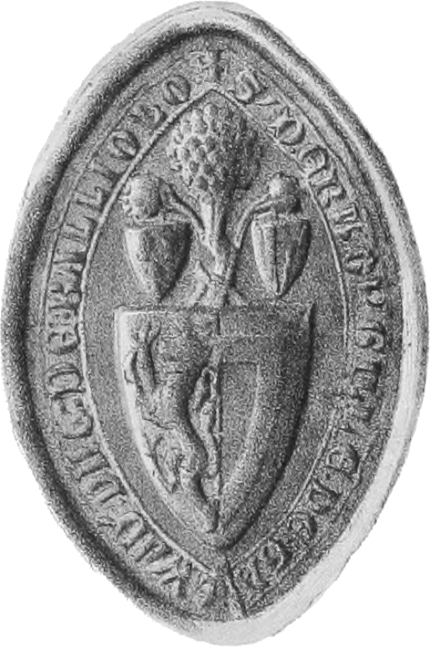 Counter-seal of Dervorguilla of Galloway. It is appended to the foundation charter of Balliol College, Oxford.